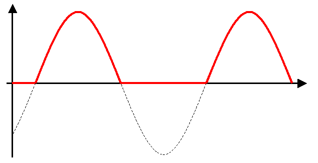 Output voltage of a half-wave rectifier.